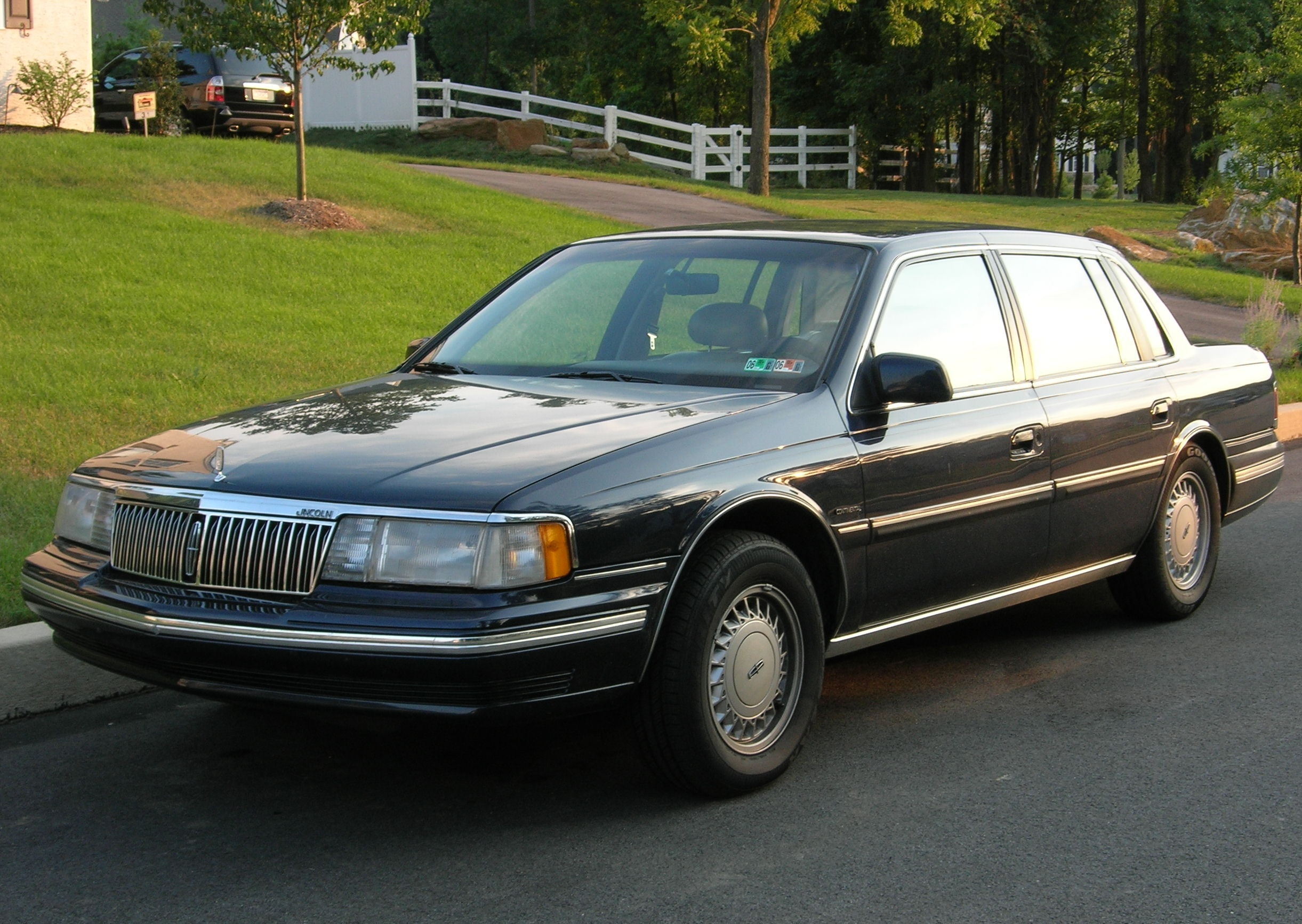 1991 Lincoln Continental